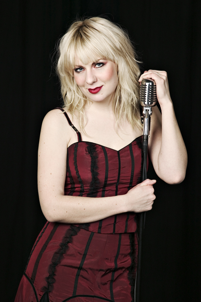 Portrait of singer and actress Tora Augestad